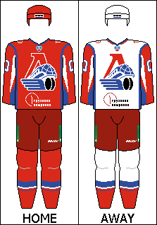 Yaroslavl Lokomotiv uniforms for 2012/2013 KHL season.